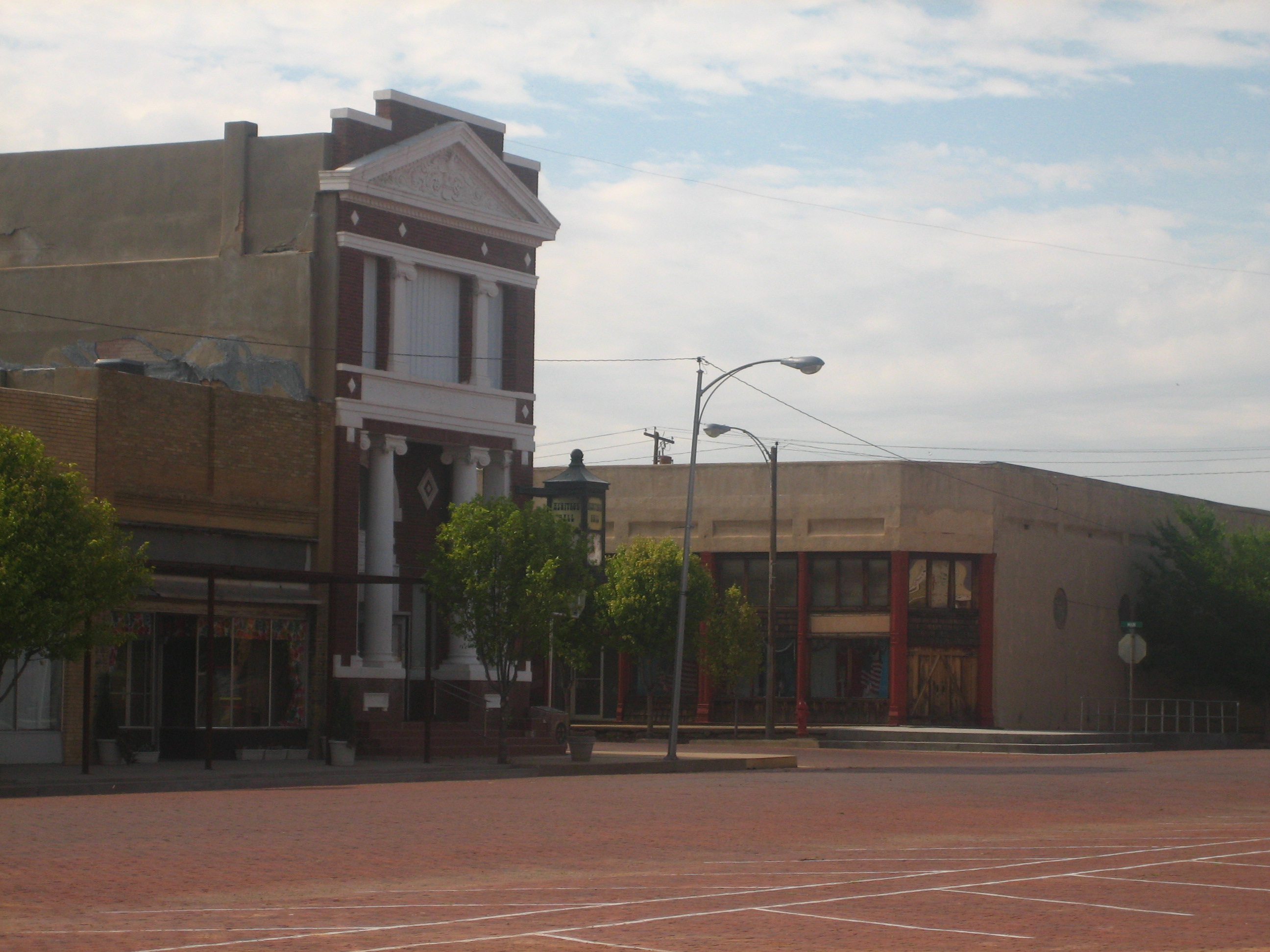 West side of 6th Street at Main Street on the edge of the courthouse square, Memphis, Texas. At center left, with decorative light: Heritage Hall, the former First National Bank building, on the SW corner.